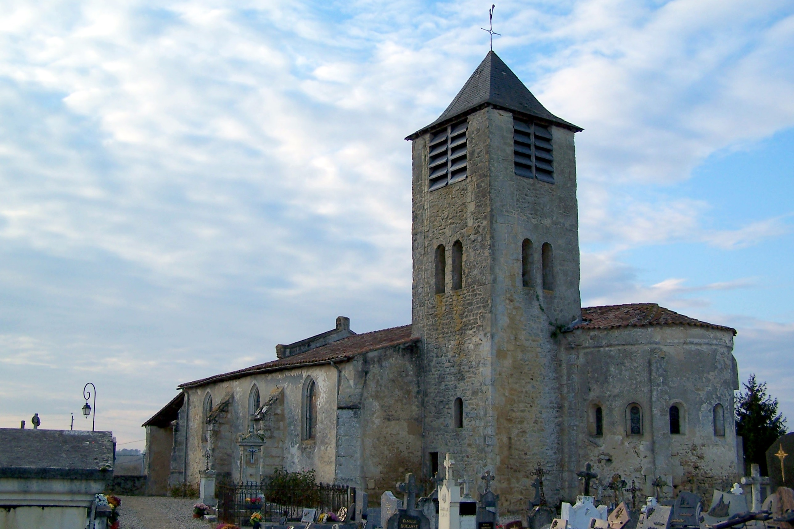 Church of Le Nizan (Gironde, France)